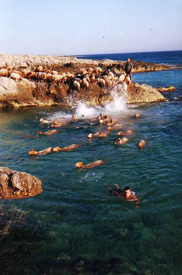 Shepherd with sheep at sea